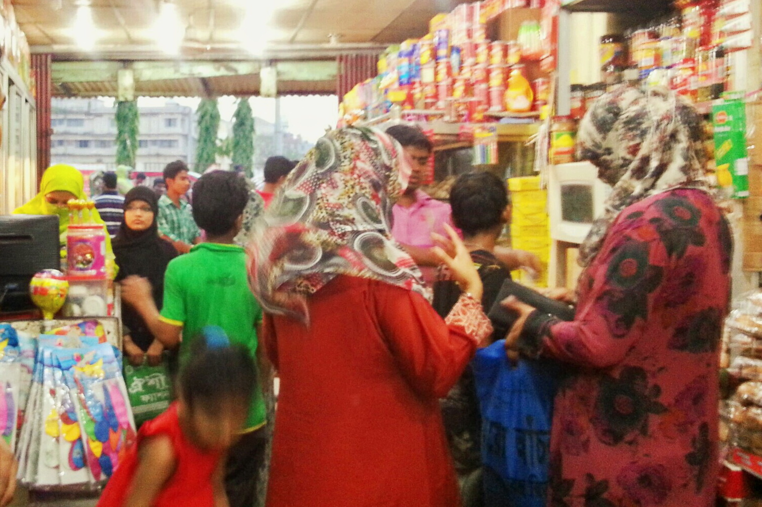 Women wearing hijab photographed in Comilla, Bangladesh at a department store on 24 April 2014.